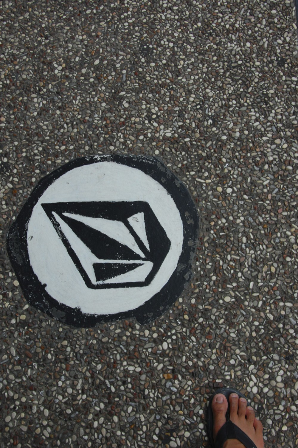 The Volcom Stone De Volcom Diamant.